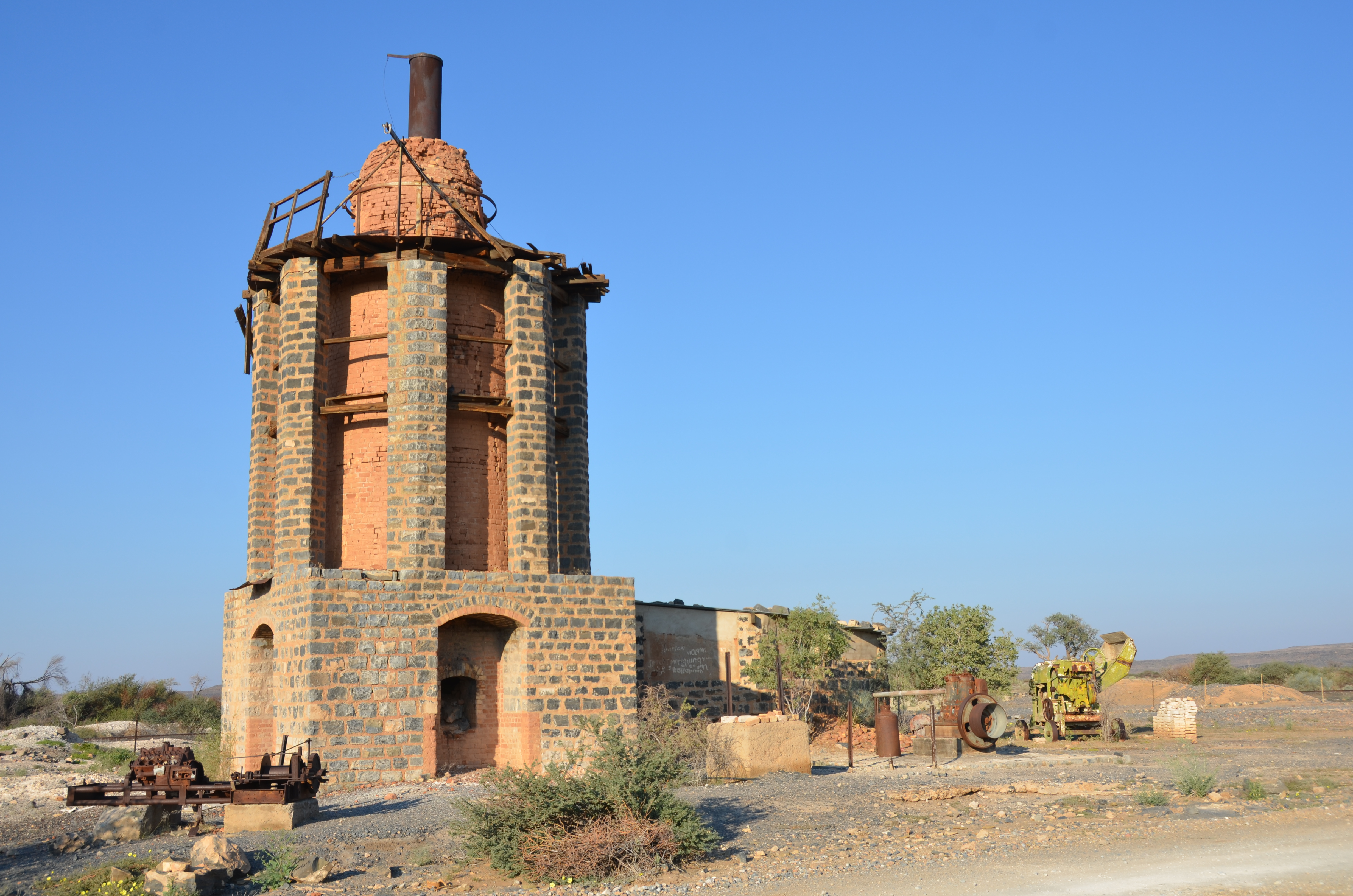 Old lime kiln of 1906 at Farm Simplon in Namibia (2017)